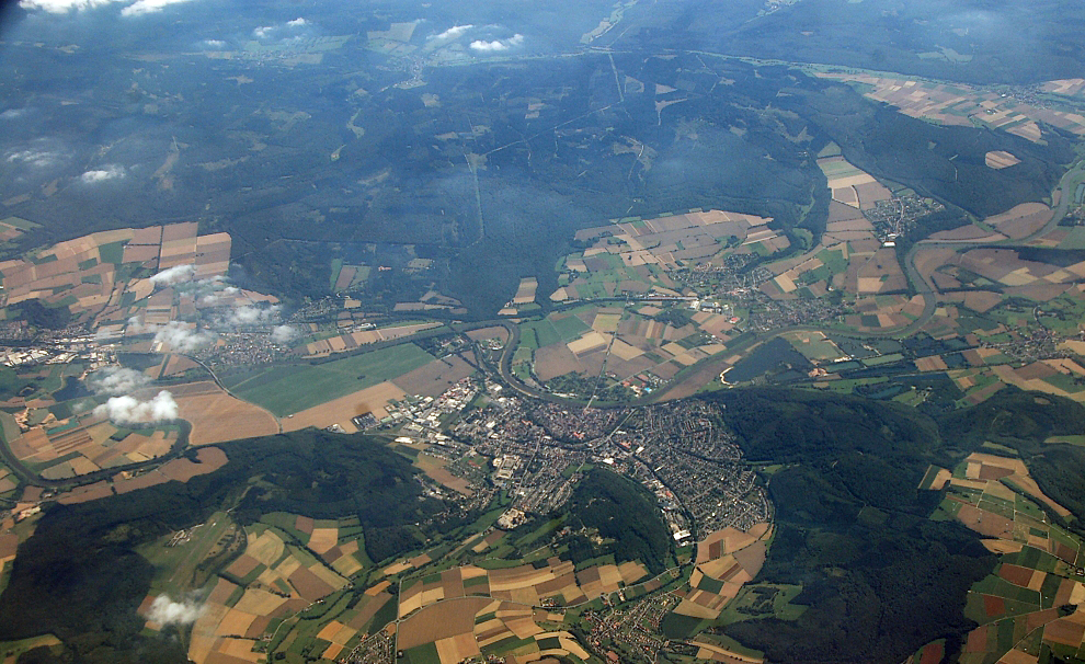 Aerial photograph of Höxter and surrounding villages, North Rhine-Westphalia/Lower Saxony, Germany